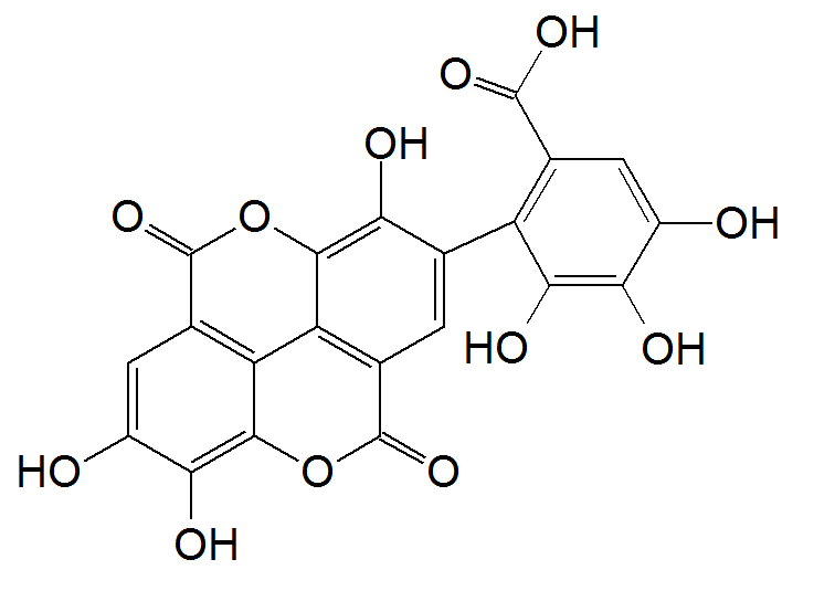 Chemical structure of flavogallonic acid dilactone